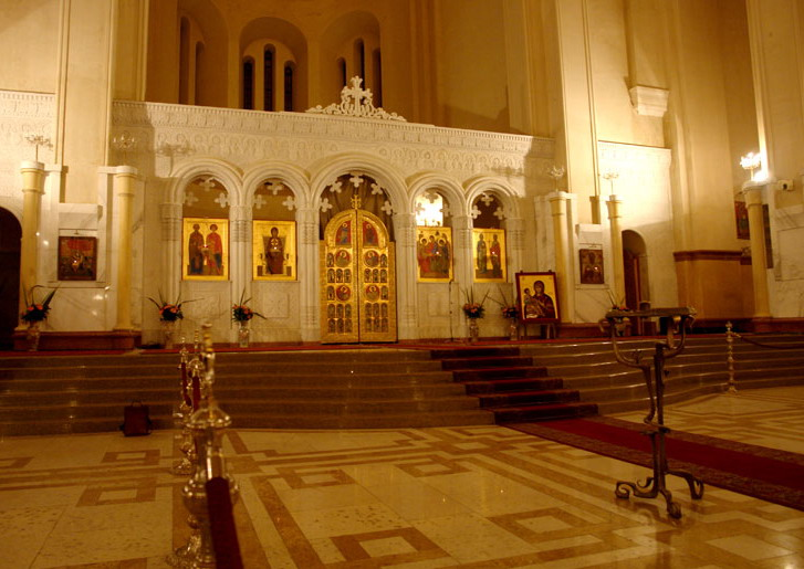 Sameba Cathedral in Tbilisi Georgia